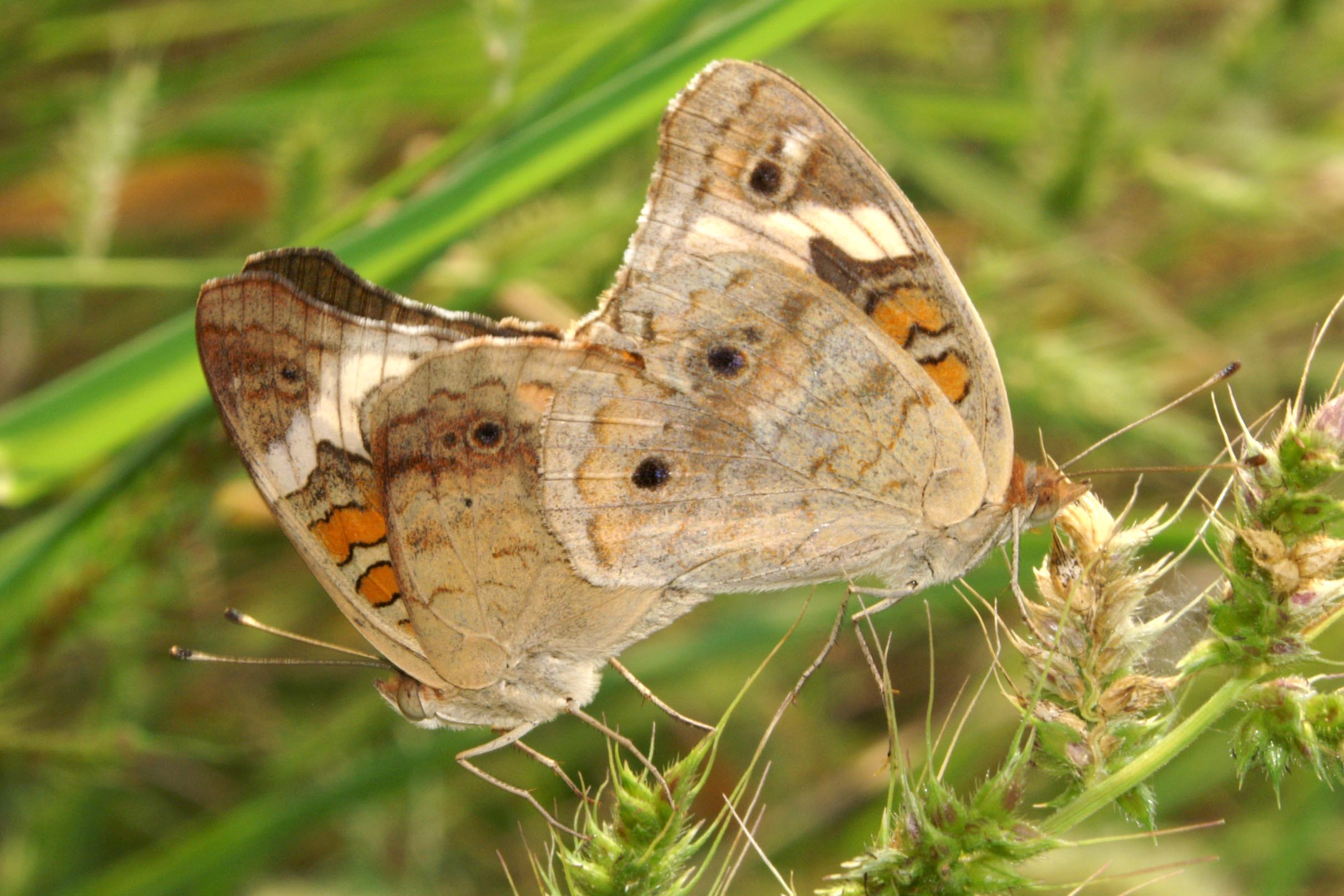 Mating Common Buckeyes, found in the United States.